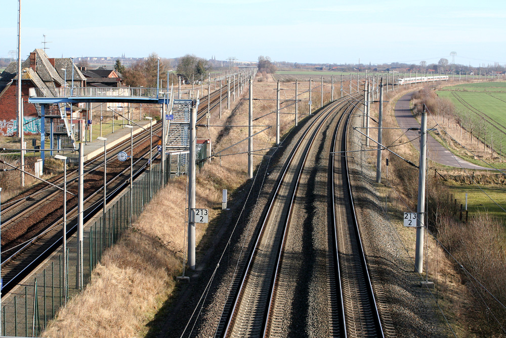 The Berlin-Hannover high-speed railway line bypasses on a large curve. Near Möringen, the connecting track to Stendal (on the left) seperates from the high-speed line (on the right). View looking east.